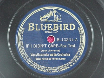 Van Alexander: If I Didn't care